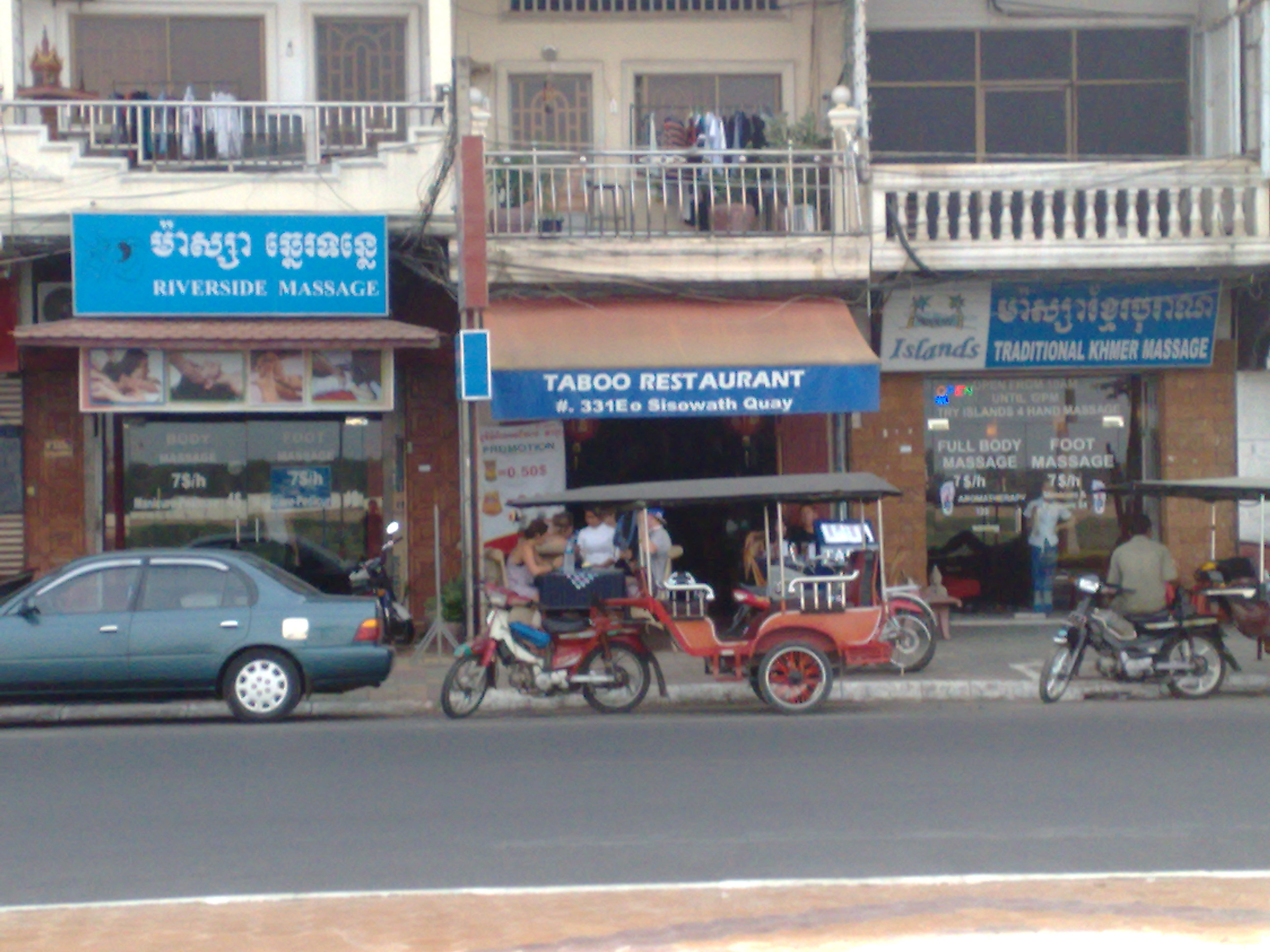 Taboo Restaurant and shops offering full body massage on Sisowath Quay, Phnom Penh, Cambodia, 1 March 2011